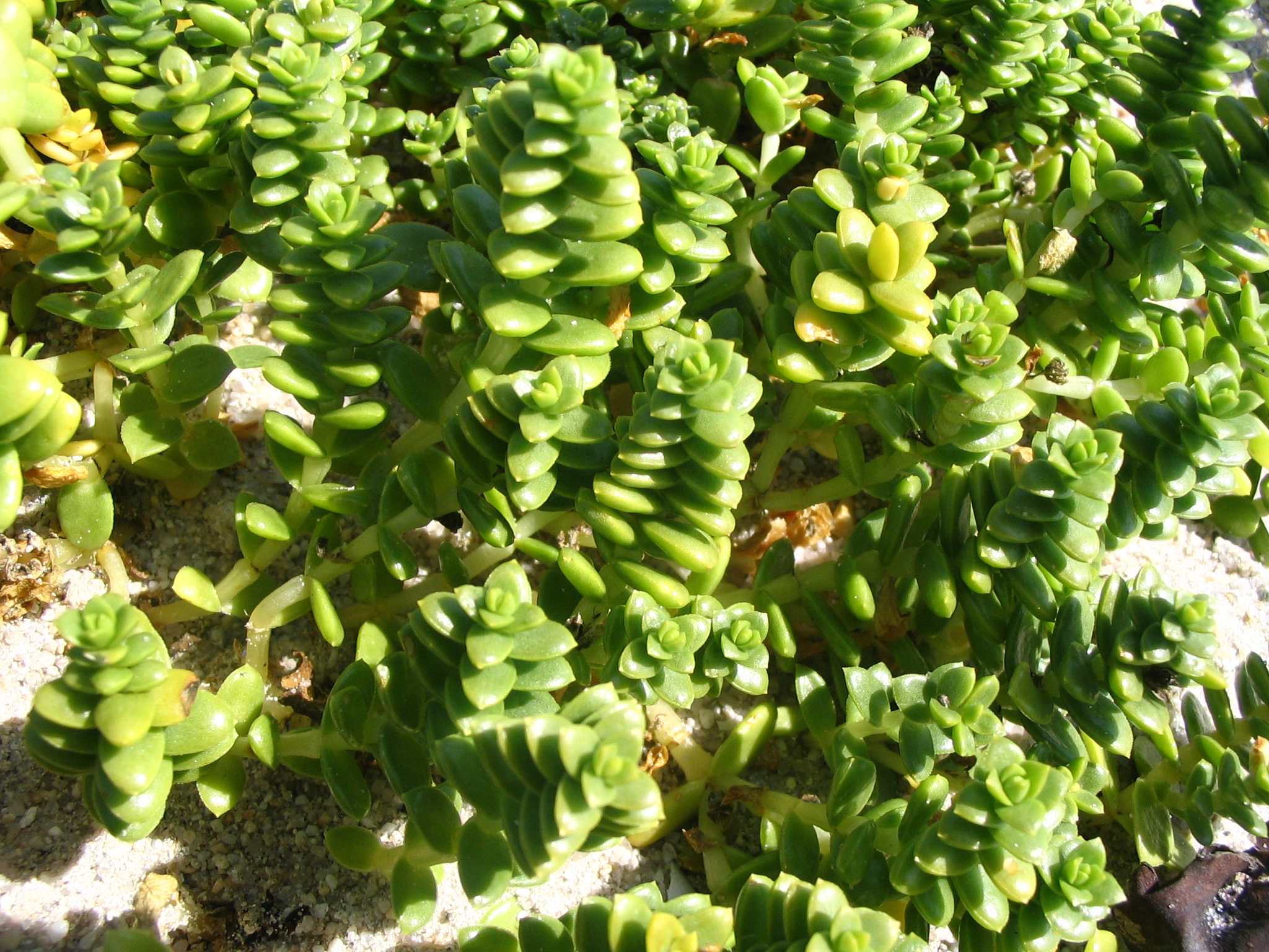 Honckenya peploides , Sea Sandwort